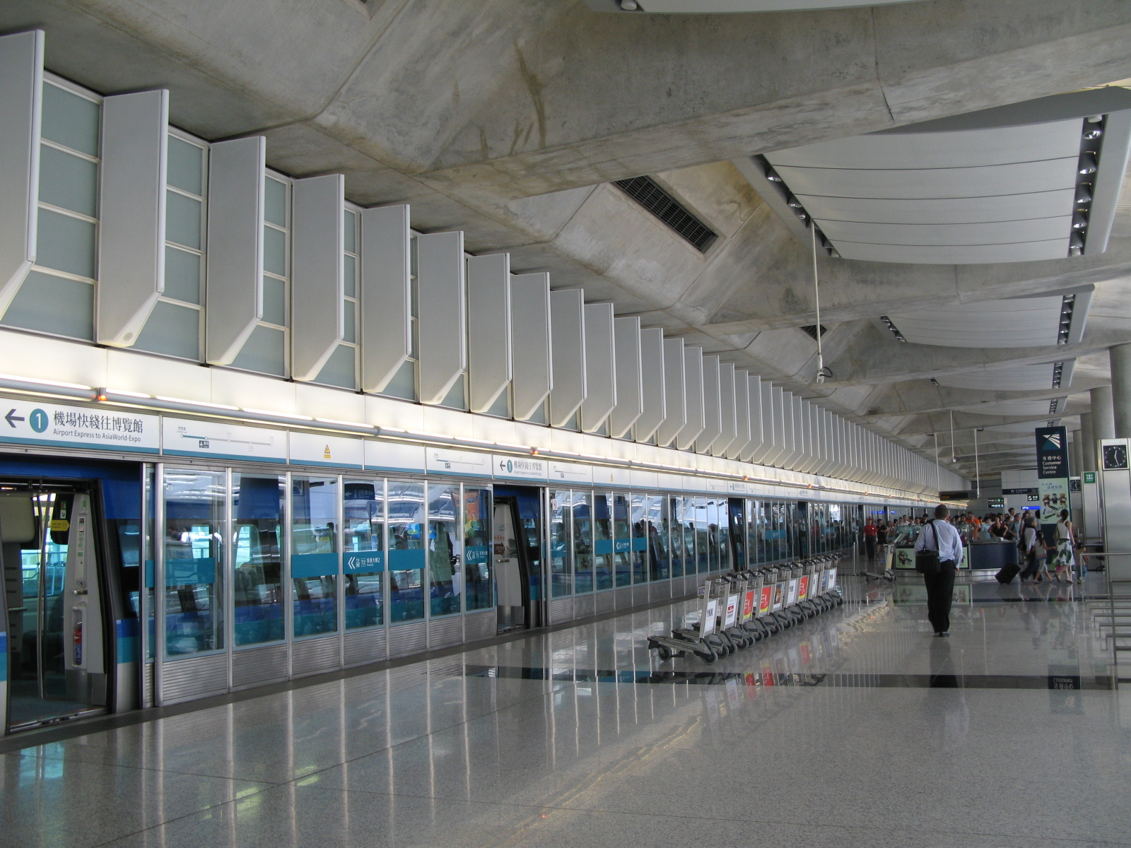 Airport, Platform Level, Airport Express, MTR Hong Kong.